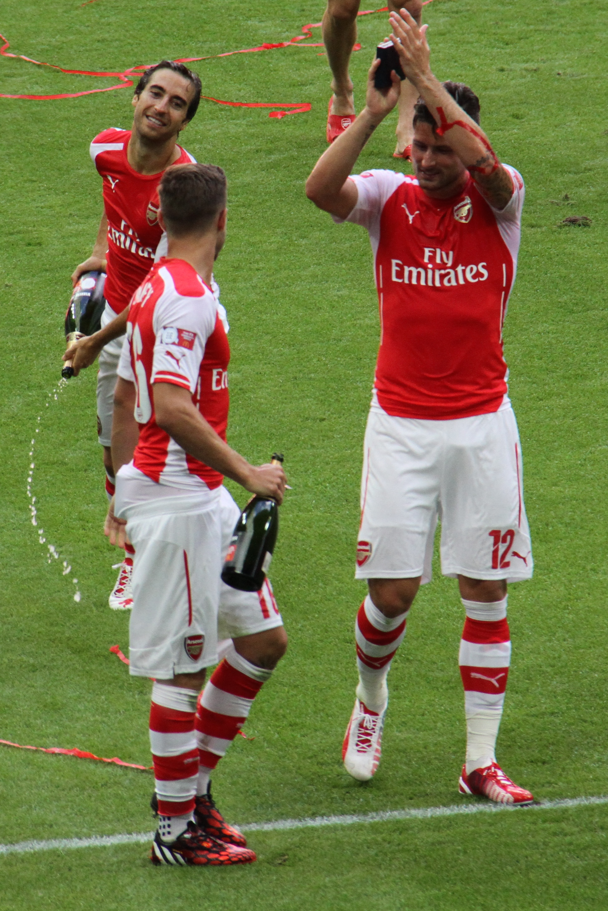 Community Shield 58 - Celebrations